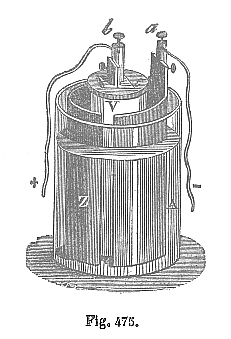 Grove cell